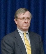 Stephen Stetler at Pennsylvania Conservation Voters Education League releaseof their 2006 Pennsylvania Environmental Briefing Book.